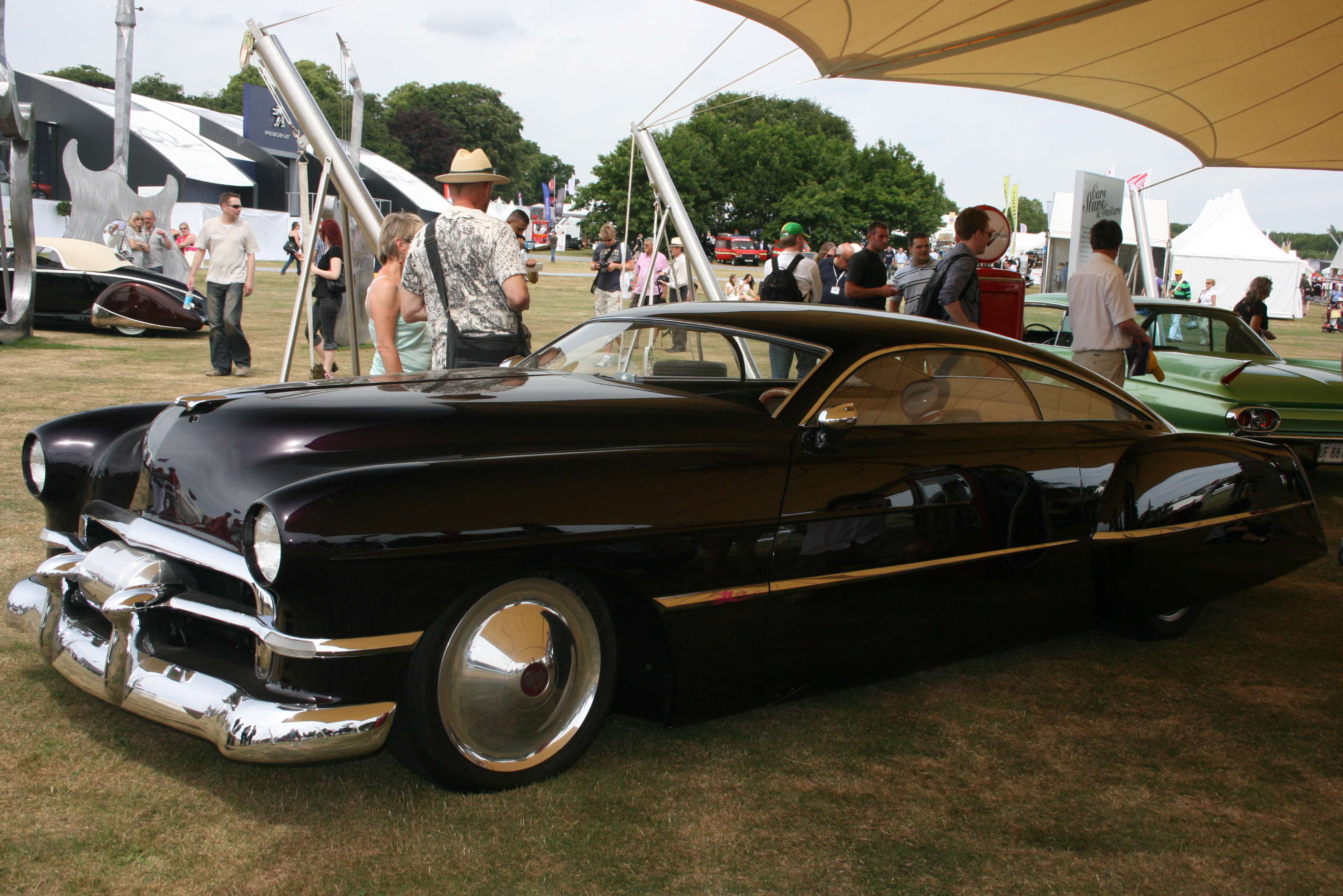 Famous custom car owned by Billy Gibbons of ZZ Top, built by Bruce Coddington in California